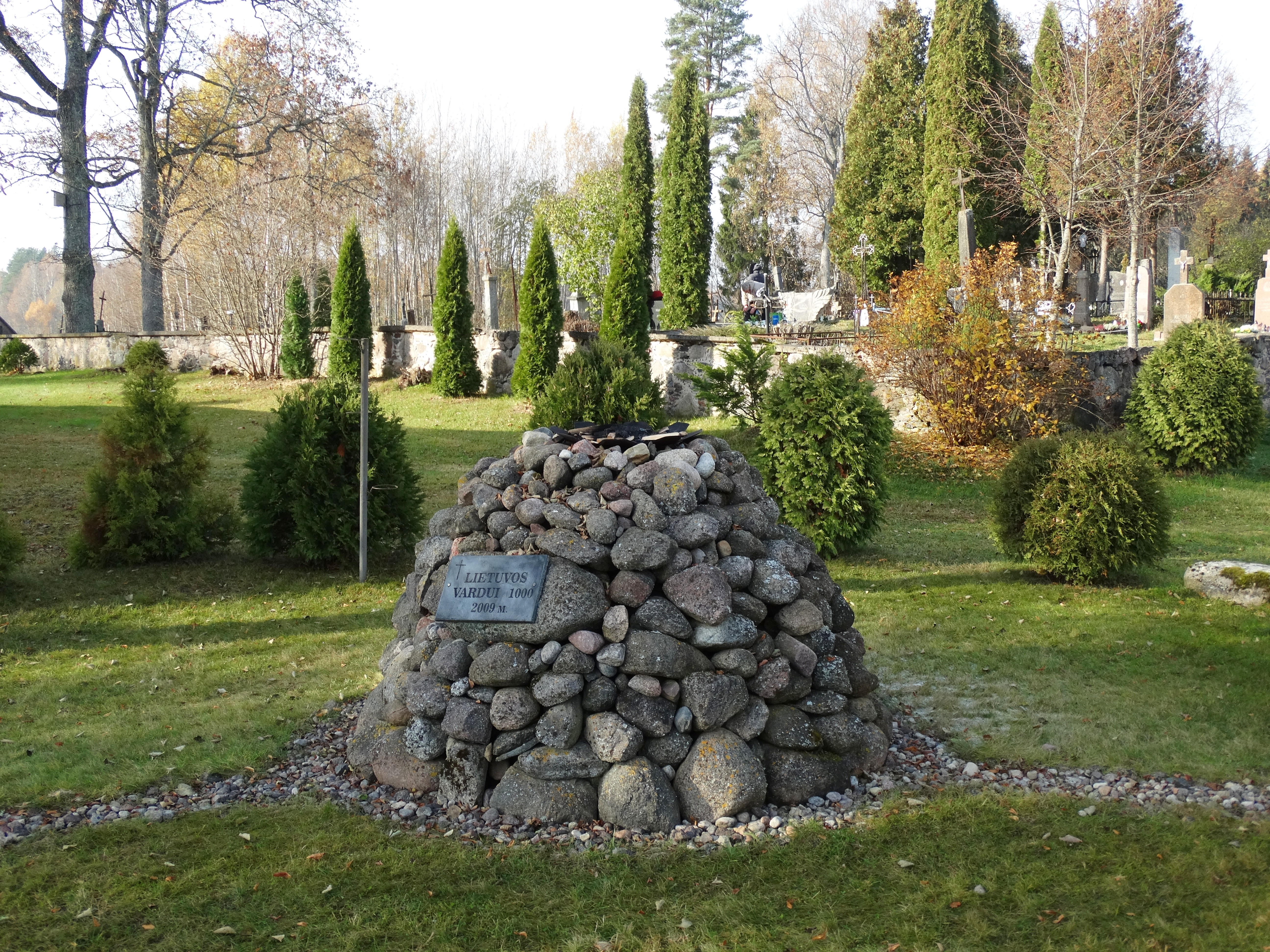 Vajasiškis, Zarasai district, Lithuania